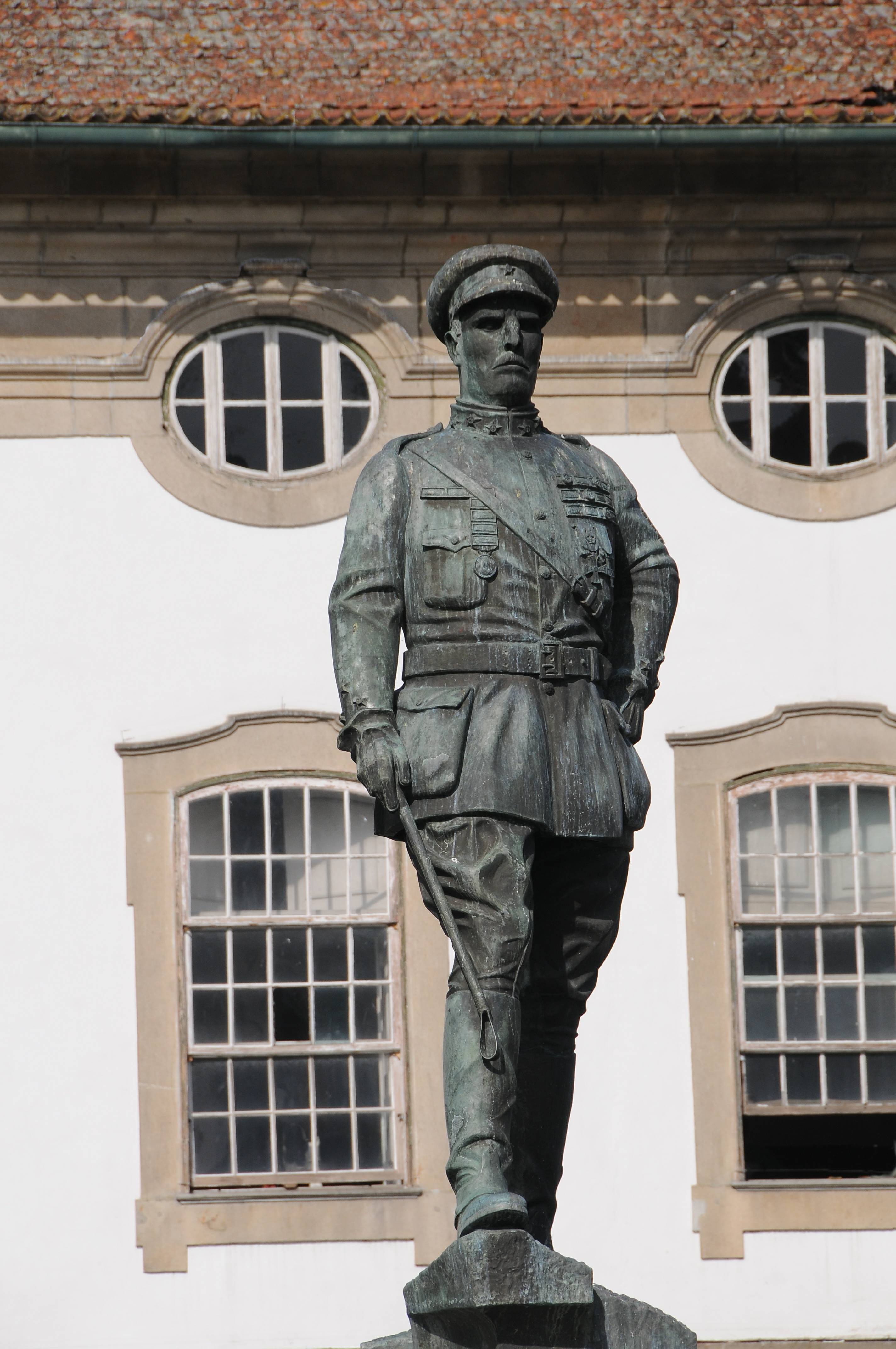 Statue of Manuel de Oliveira Gomes da Costa from the sculptor Barata Feyo, in Braga, Portugal